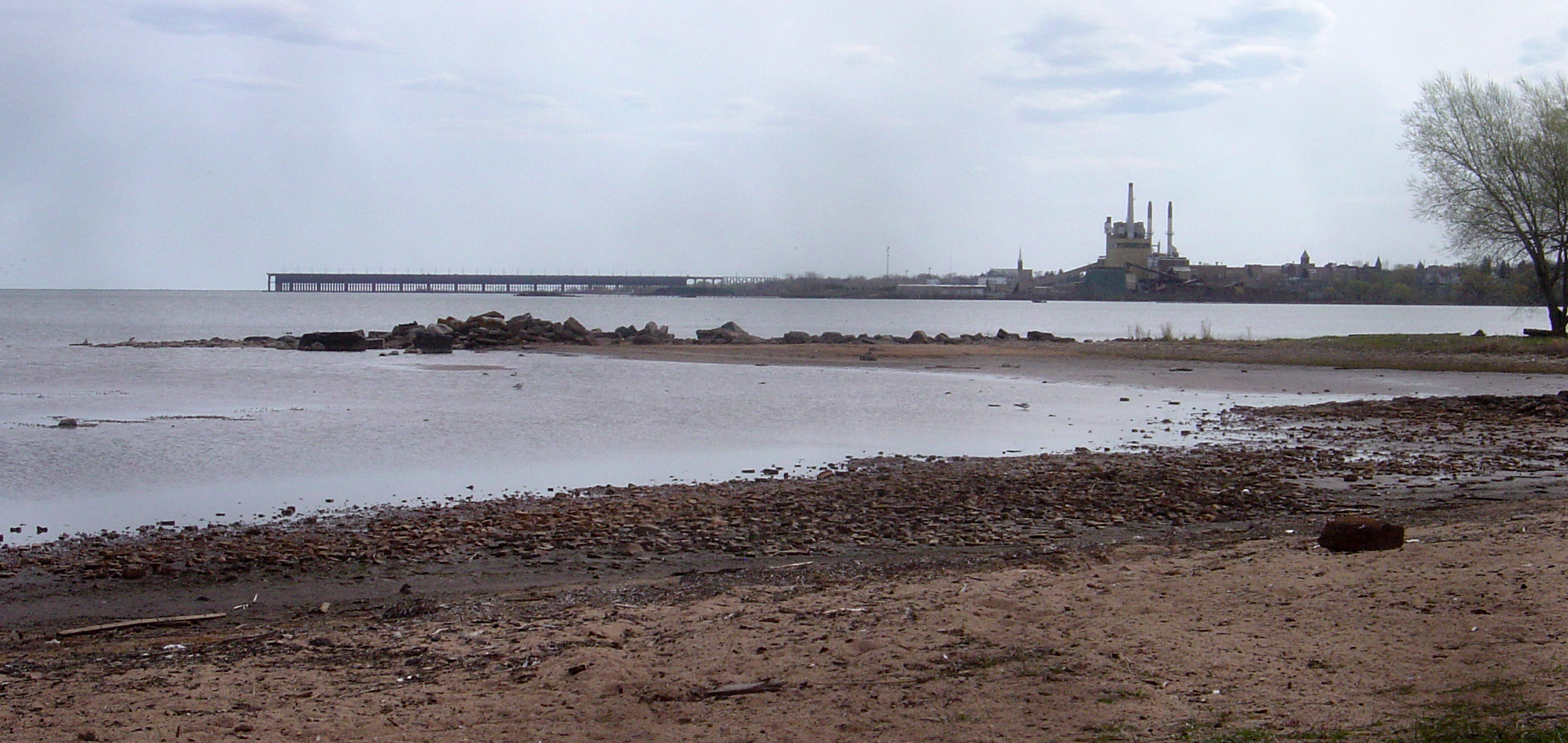 The Ashland, Wisconsin skyline. The waterfront is dominated by the massive Soo Line Ore Dock: Built in 1916, it is the last of what were once many such docks, the concrete structure is 80 feet high and 75 feet wide and in 1925 the dock was extended to 1800 feet; it was last used to ship ore in 1965.